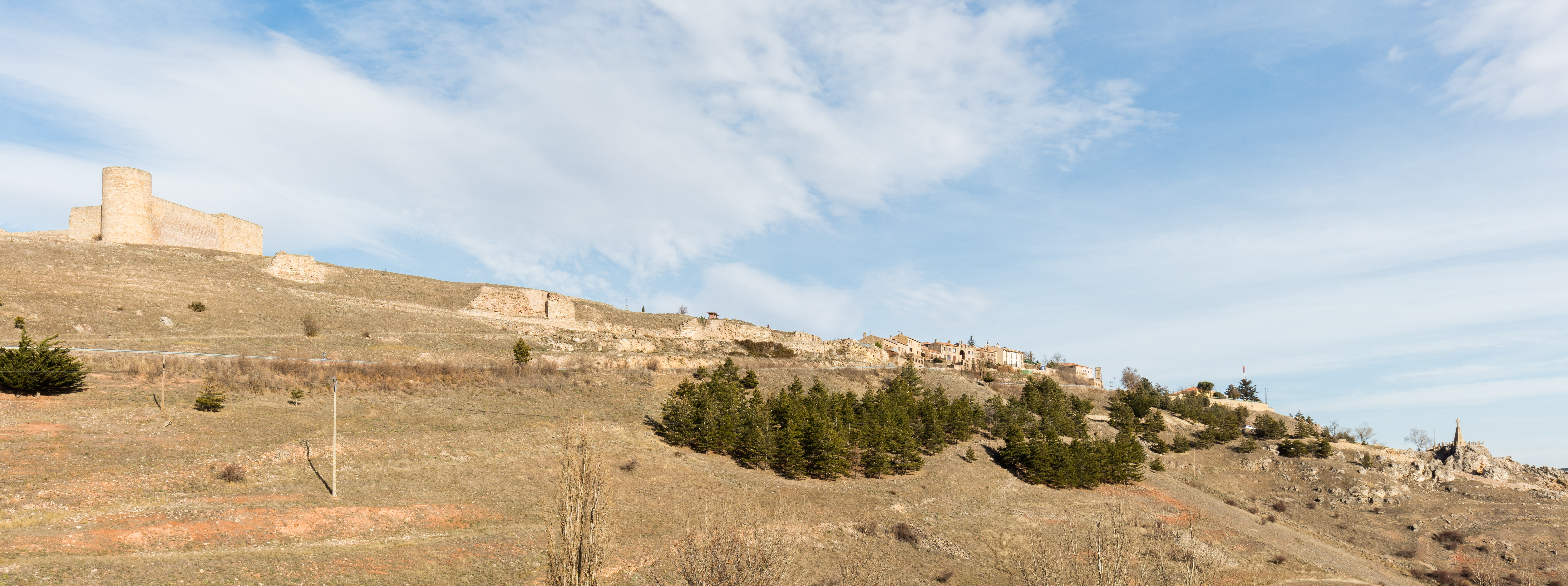 View of Medinaceli, Soria, Spain